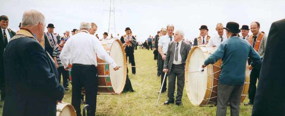 Lambeg Drumming competition at the 2002 Twelfth of July demonstration in coagh, County Tyrone, Northern Ireland. Picture taken by myself.